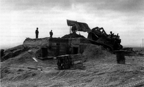 Marine engineers with a bulldozer are building ammunition storage bunkers at Combat Base Area C-4 Con Thien, 3rd Marine Division sector.